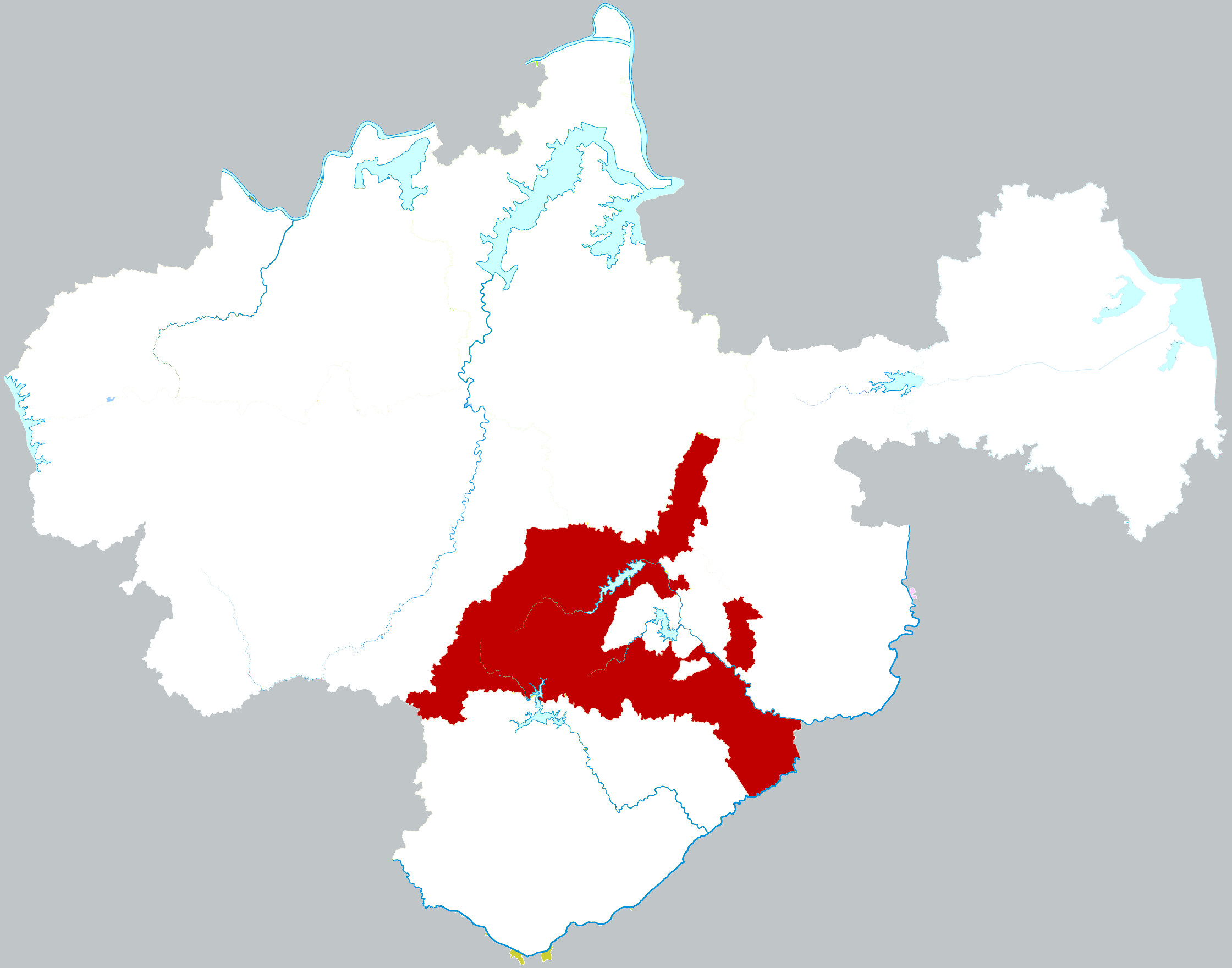 Location of Nanqiao district in Chuzhou city, China